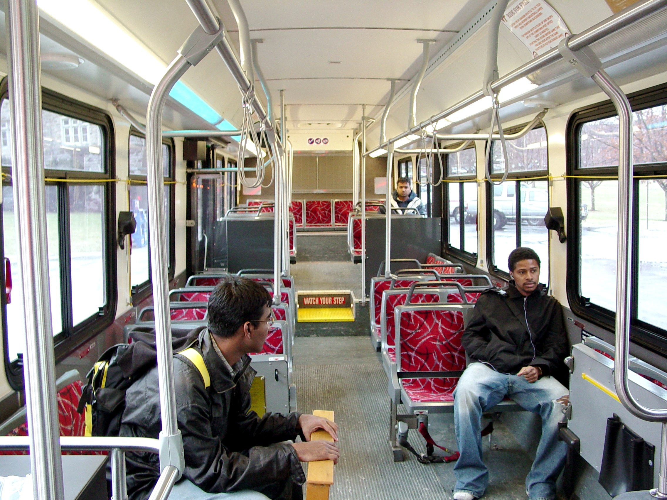 Interior of New Flyer low-floor bus, operated by Blacksburg Transit in Blacksburg, Virginia, seen here on the campus of Virginia Tech.